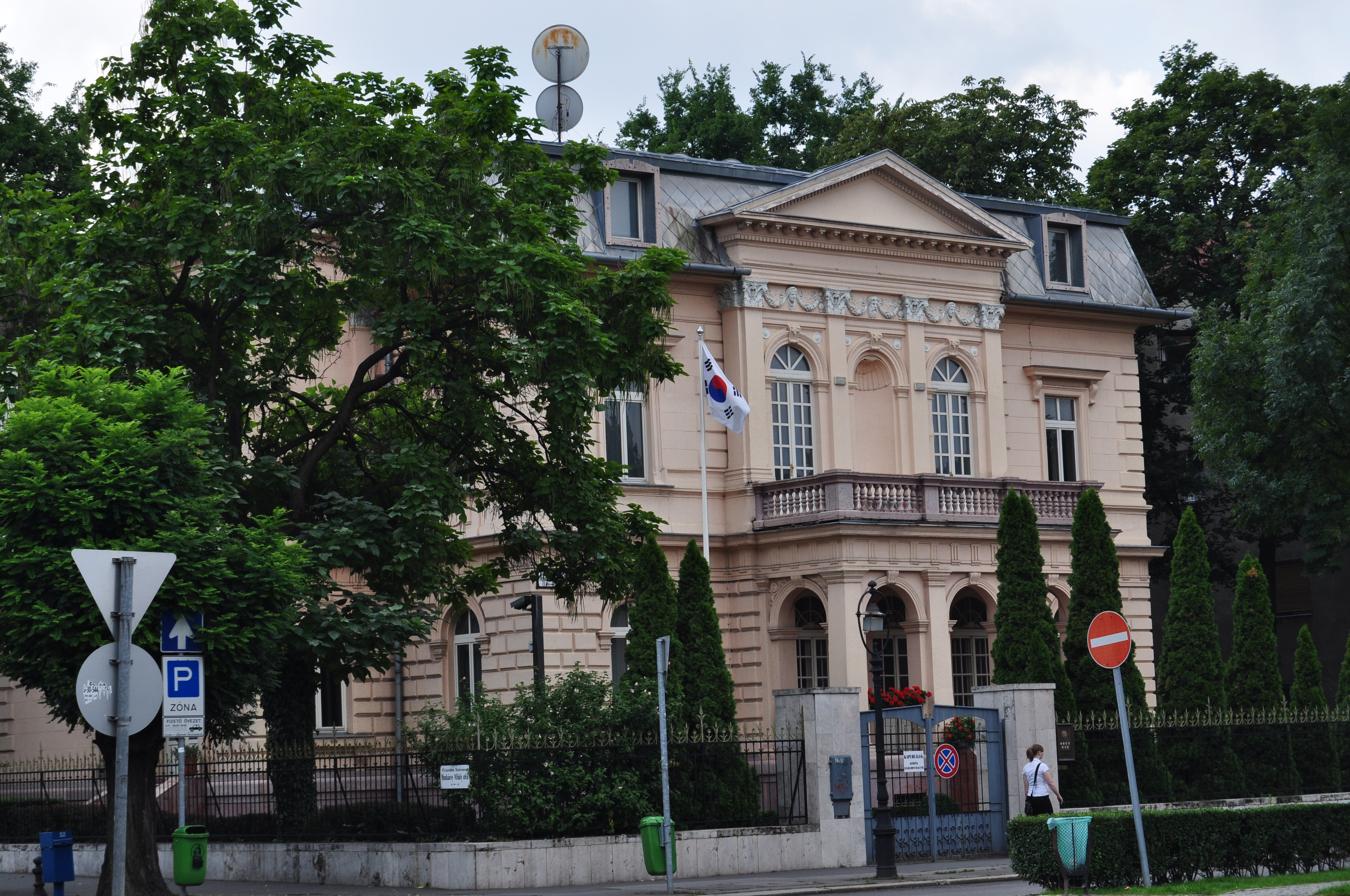 South Korean Embassy in Budapest, Andrássy út 109 @ Munkácsy Mihály utcaKoreai Köztársaság Nagykövetsége Budapest.- Budapest, Andrássy út 109.